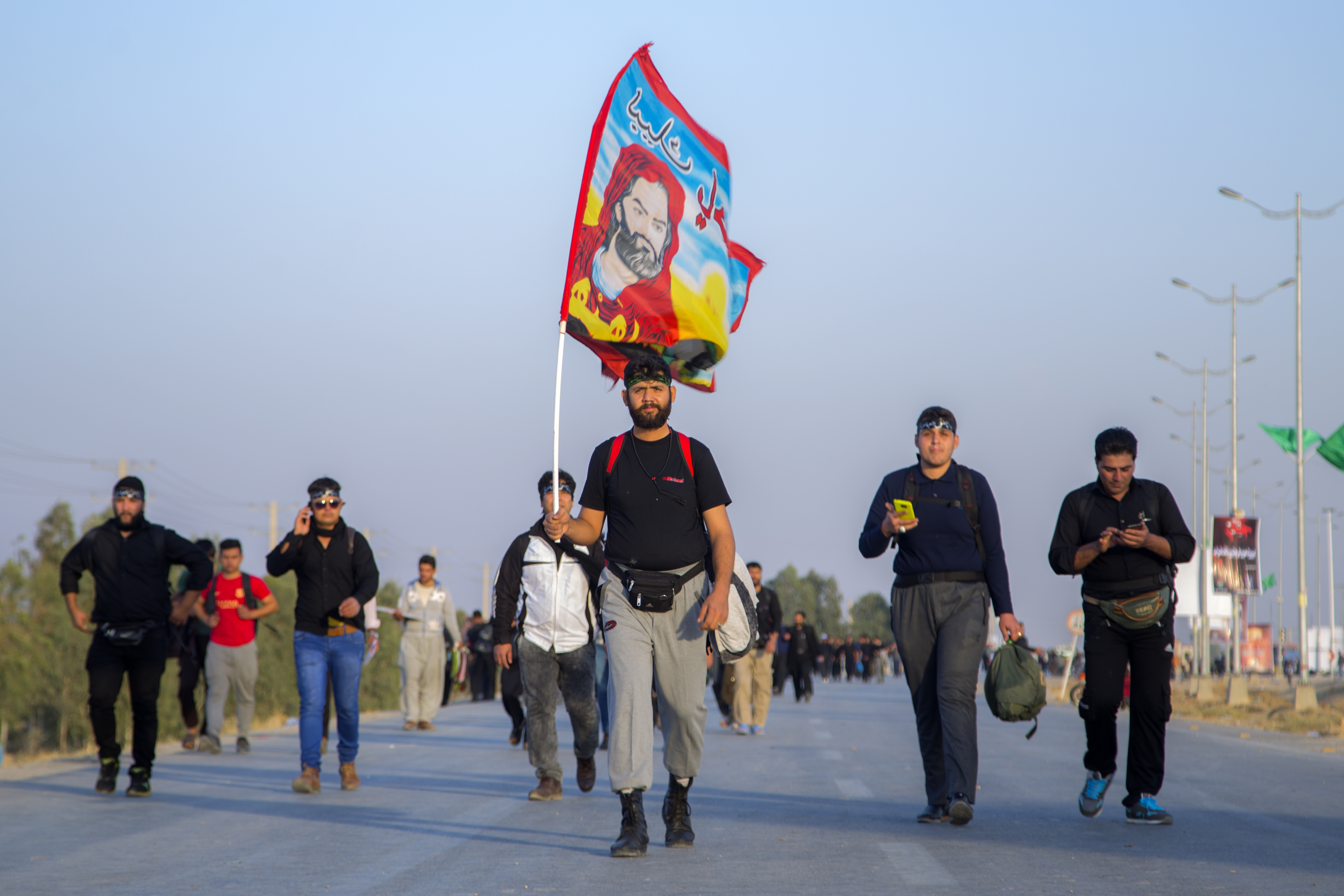 The Arba'een Pilgrimage is the world's largest public gathering that is held every year in Iraq. This Ziyarah (pilgrimage) is held at the end of the 40-day mourning period following Ashura, the religious ritual for the commemoration of the Prophet Mohammad's grandson Husayn ibn Ali's martyrdom in 680.